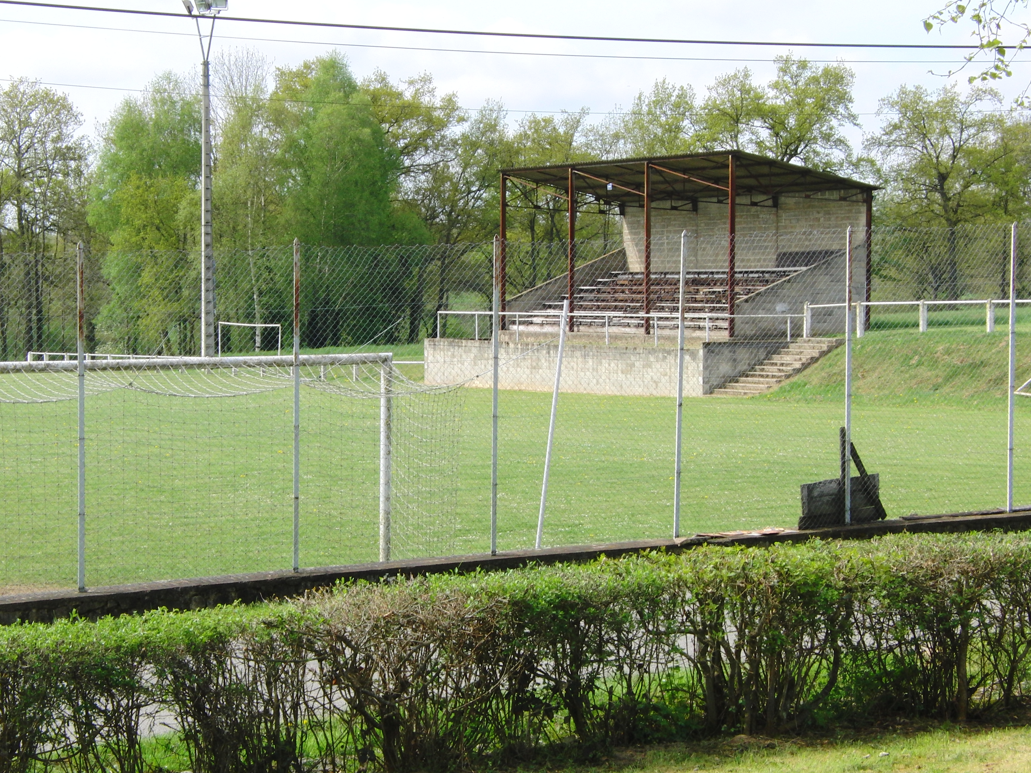 Peyrat-la-Nonière stadium